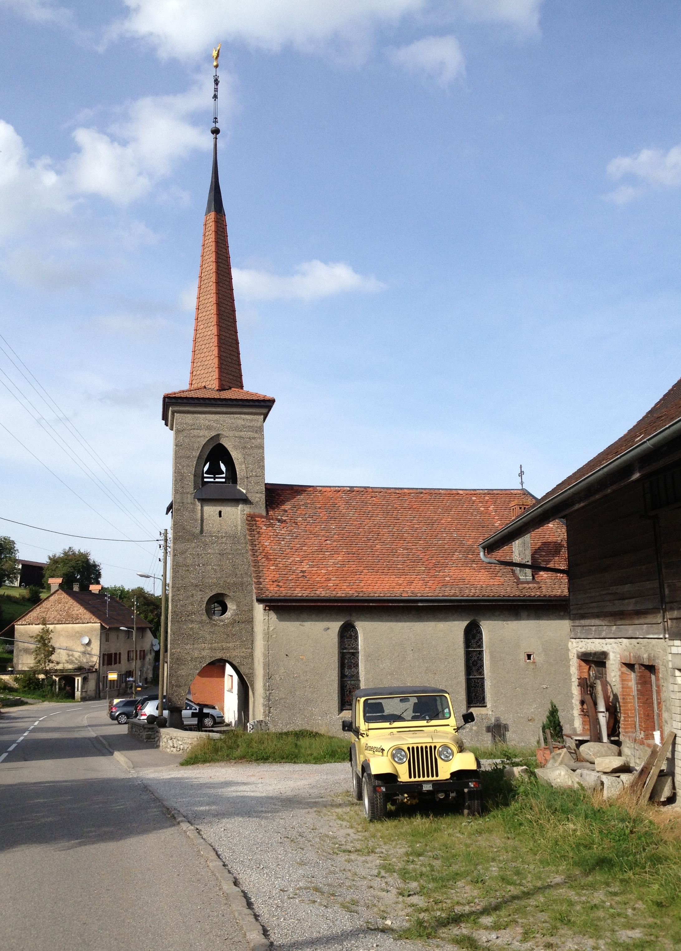 Saint Hubert Chapel, Prévondavaux, Switzerland.